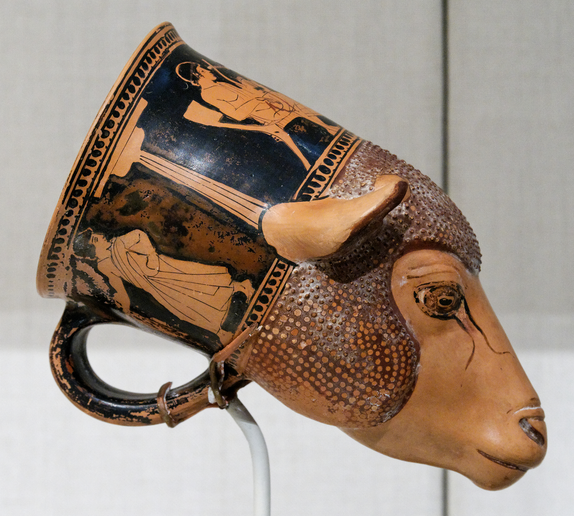 Youths playing the aulos. Attic red-figure rhyton in the shape of a lamb's head.